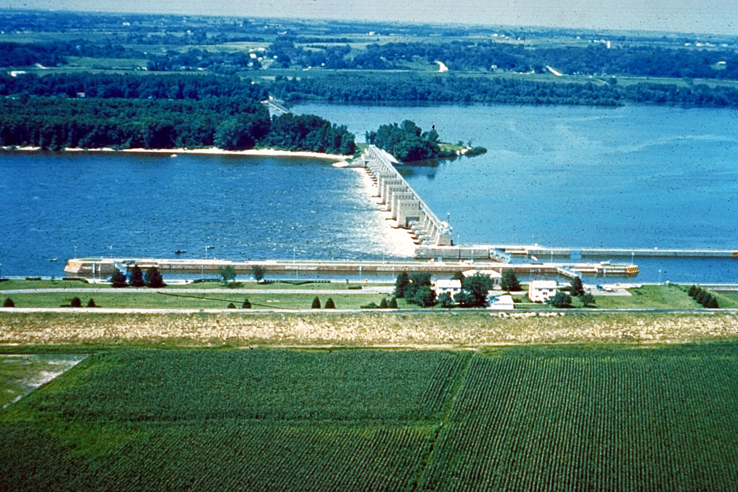 Aerial view of Lock and Dam 16, Mississippi River, Muscatine, Iowa.